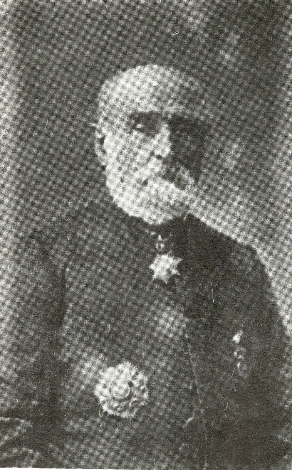 Michał Czaykowski